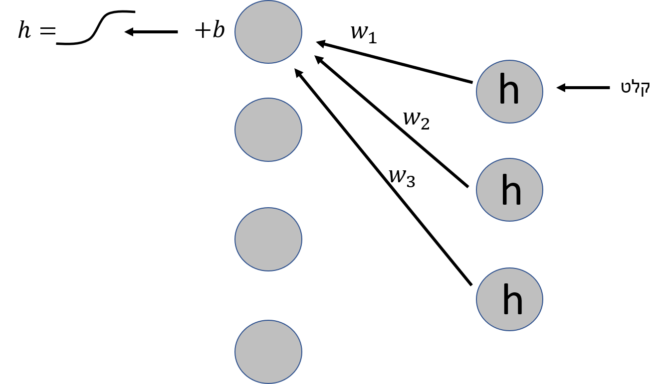 Boltzmann machine